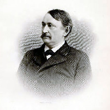 Augustus Albert Hardenbergh, US Representative from New Jersey